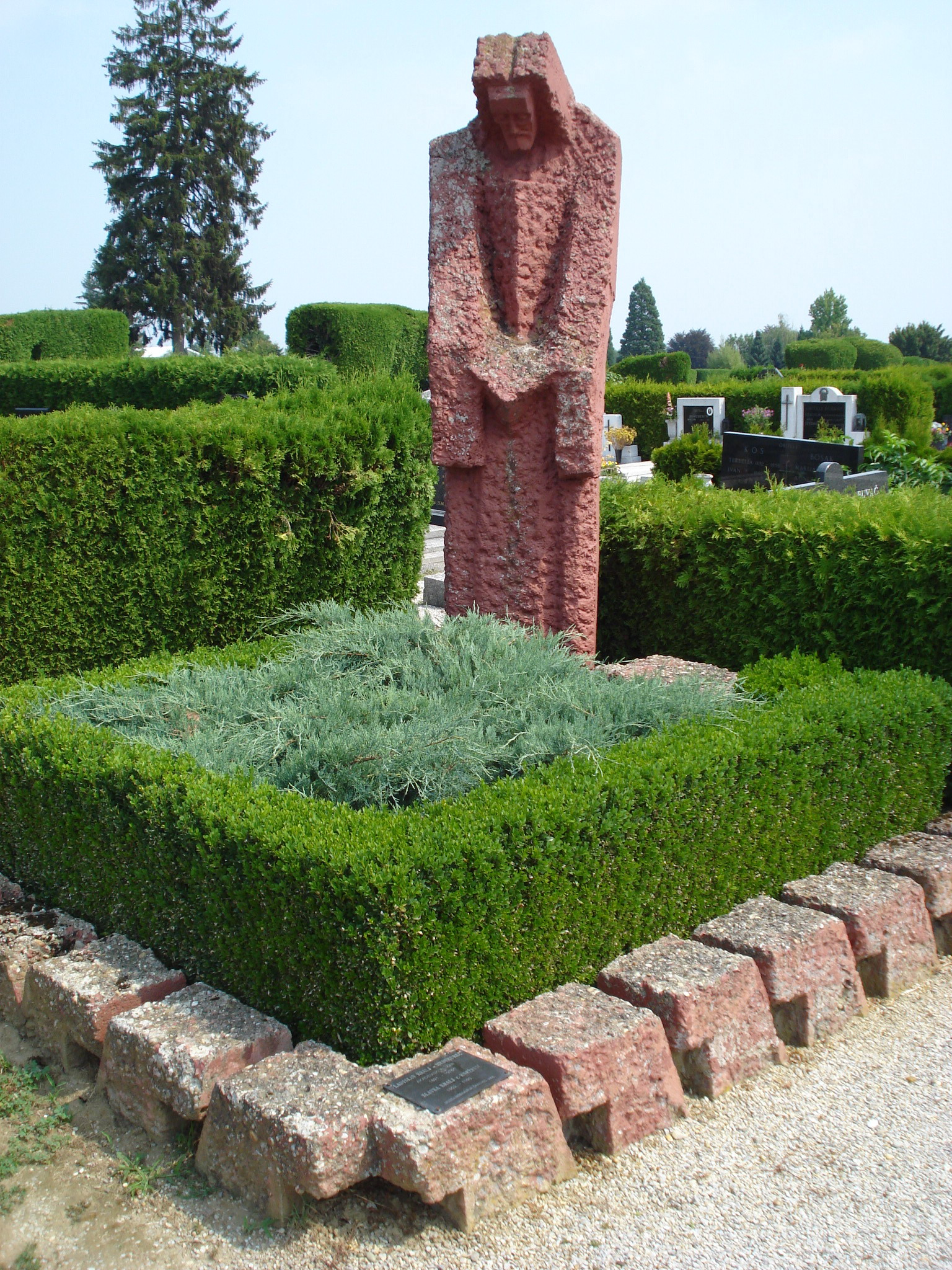 Grave of Ladislav Kralj Međimurec, Croatian painter and engraver (1891-1976), at Čakovec cemeteryHrvatski: Grob Ladislava Kralja Međimurca, hrvatskog slikara i gravera (1891-1976), na Čakovečkom groblju